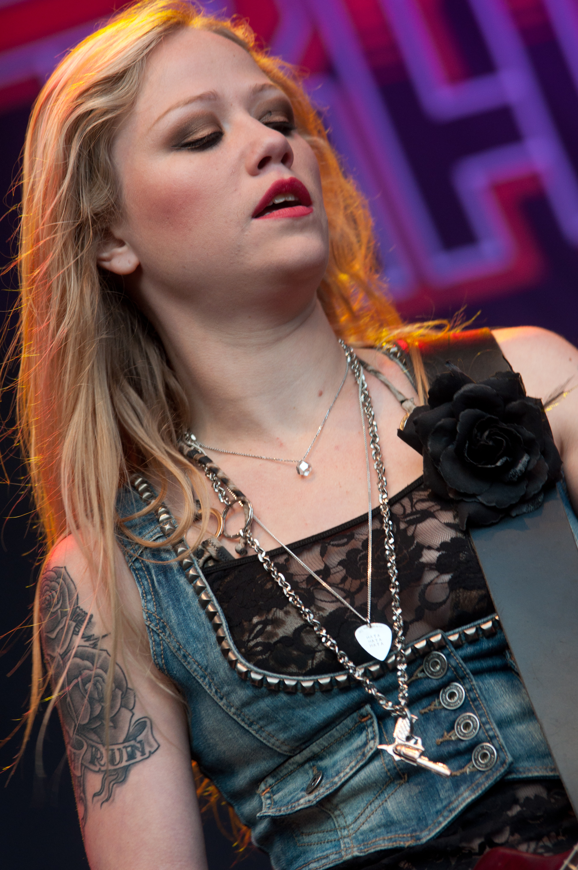 Swedish band Crucified Barbara